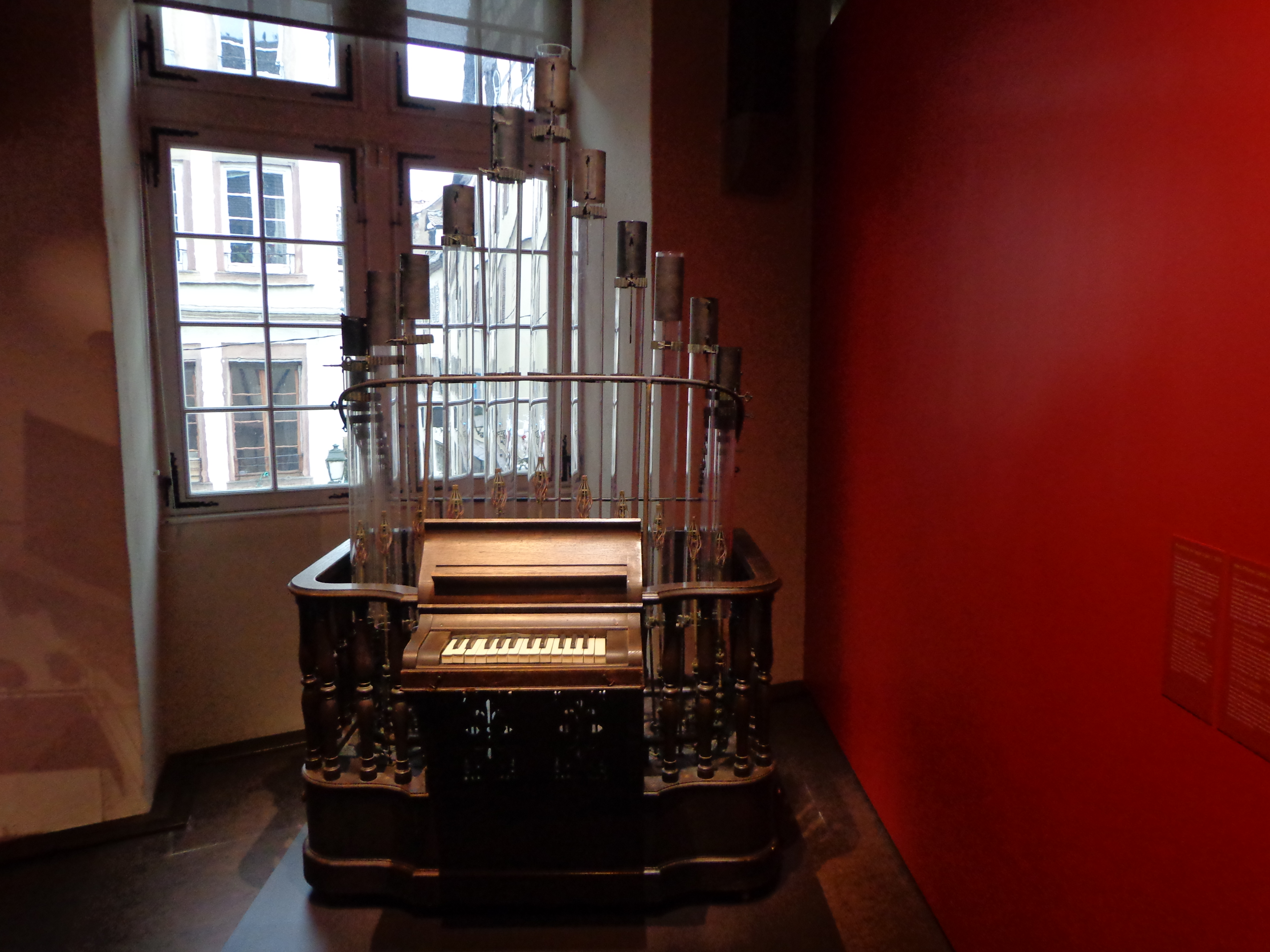 Pyrophone (fire organ) built in 1876 by Frédéric Kastner (1852-1882) from Alsace